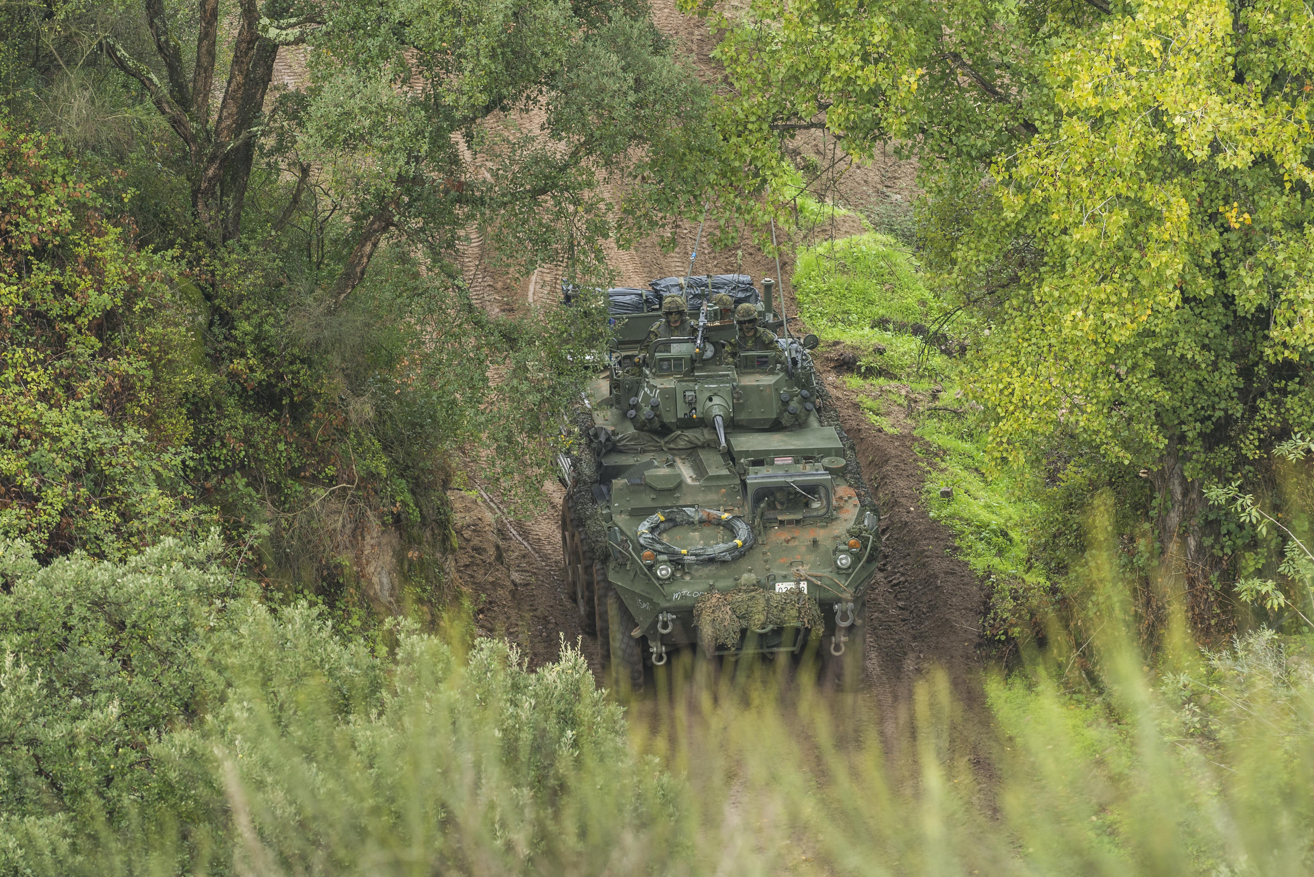 Mounted in a light armoured vehicule III, Canadian combat engineer off-road for an offensive operation, in Tancos, Portugal, during JOINTEX 15 as part of NATO’s exercise TRIDENT JUNCTURE 15 on November 3, 2015 Photo: Sgt Sebastien Frechette, PA Technician VL06-2015-386-04